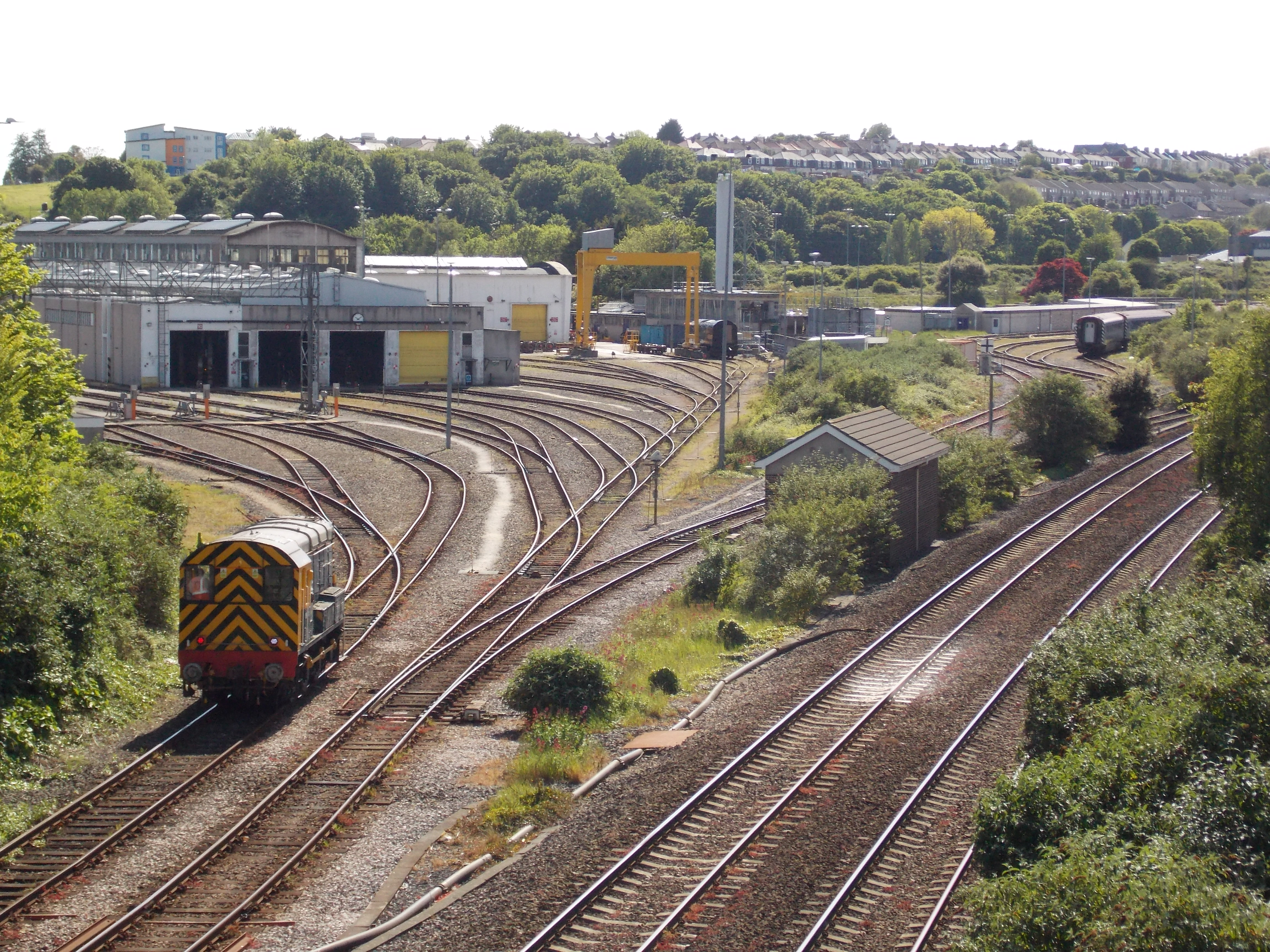 An image of the daily goings on of Laira T&RSMD depot in Plymouth